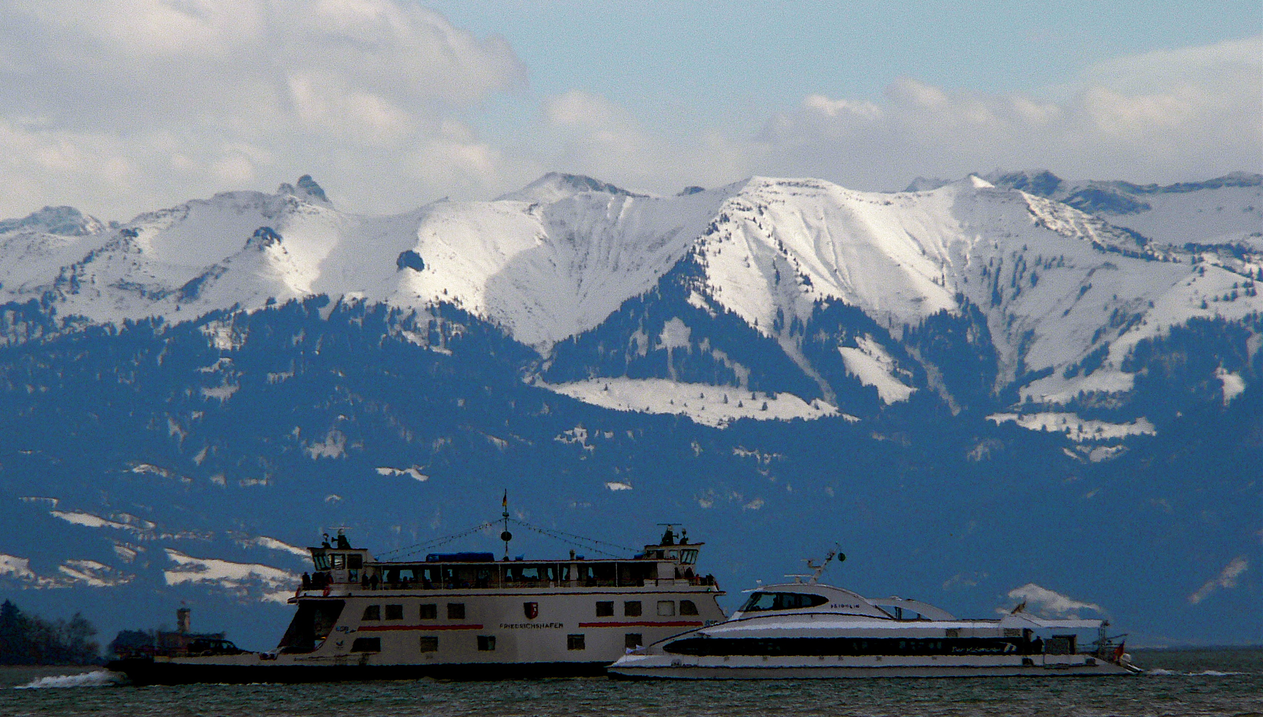 Catamaran Fridolin and MF Friedrichshafen on Lake Constance.